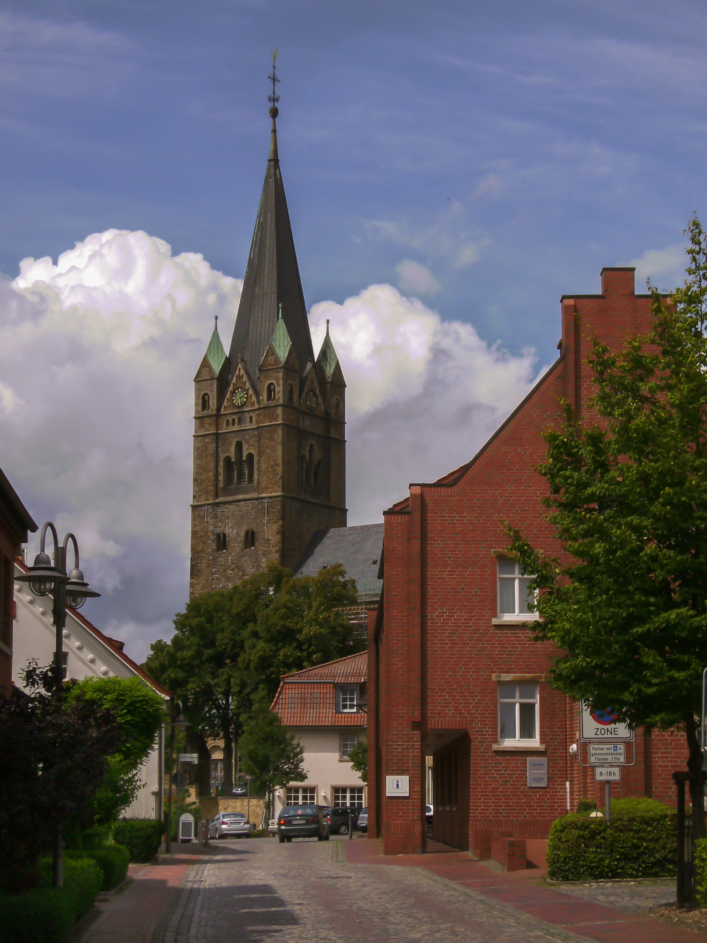 Ankum, Artländer Dom